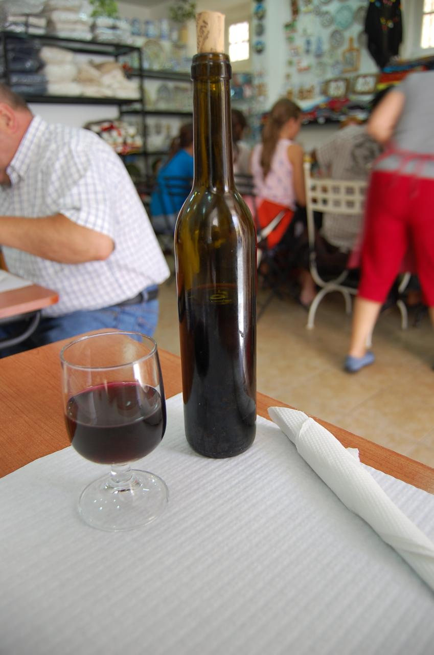 House wine in A Pendoa